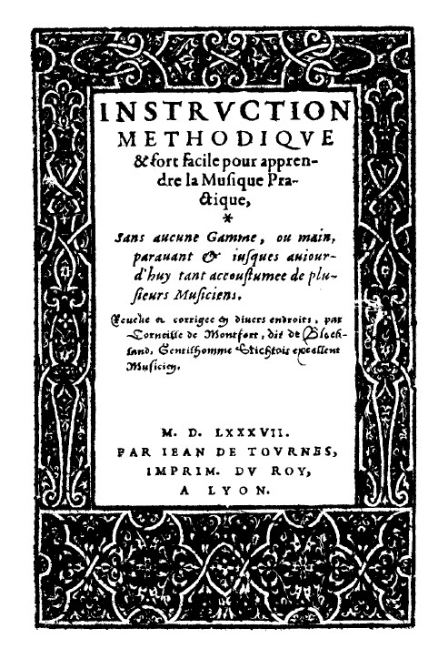 Title page of orneille de Blockland "Instruction de musique", Geneva, 1587.